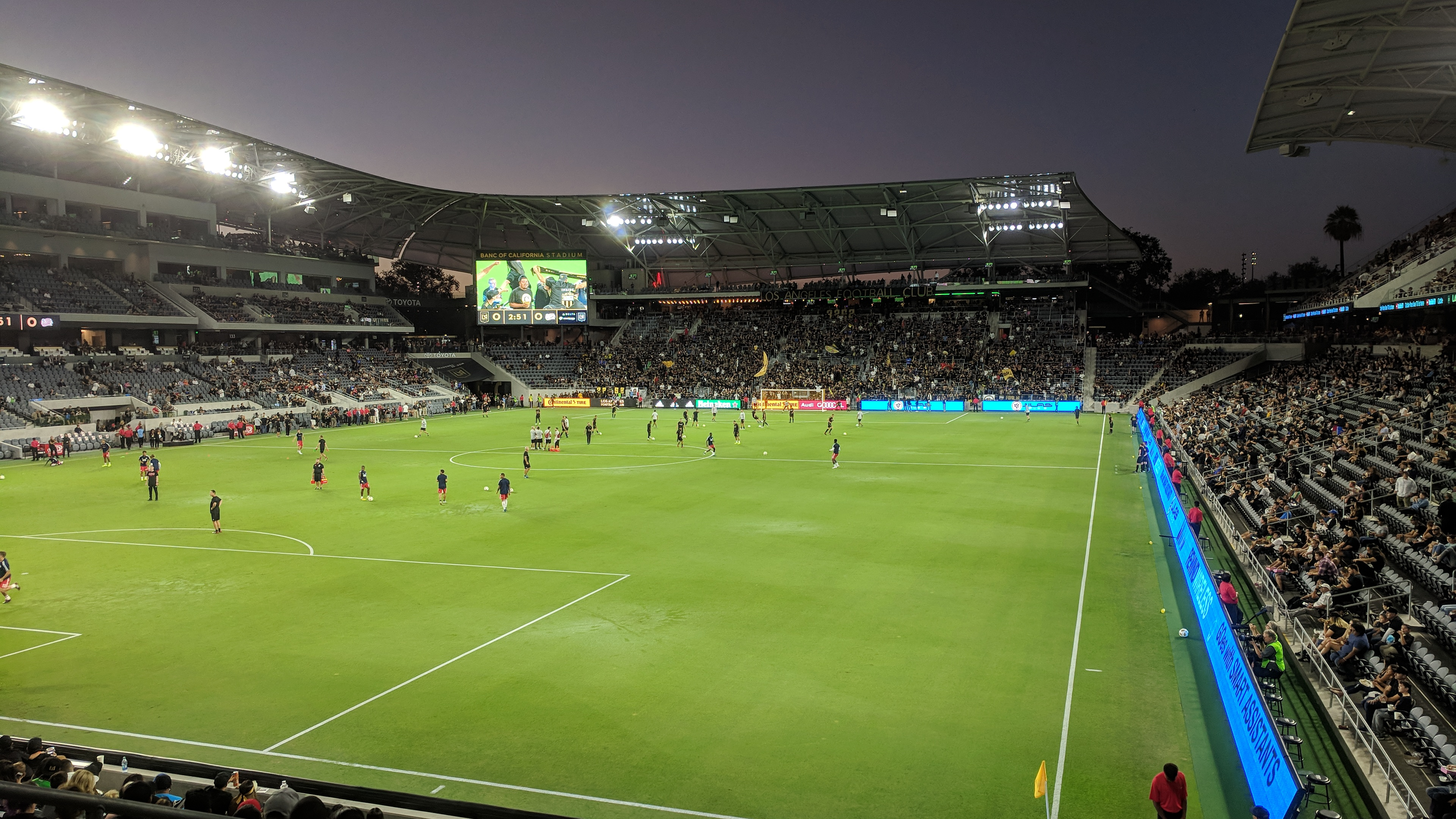 A shot from inside Banc of California Stadium.